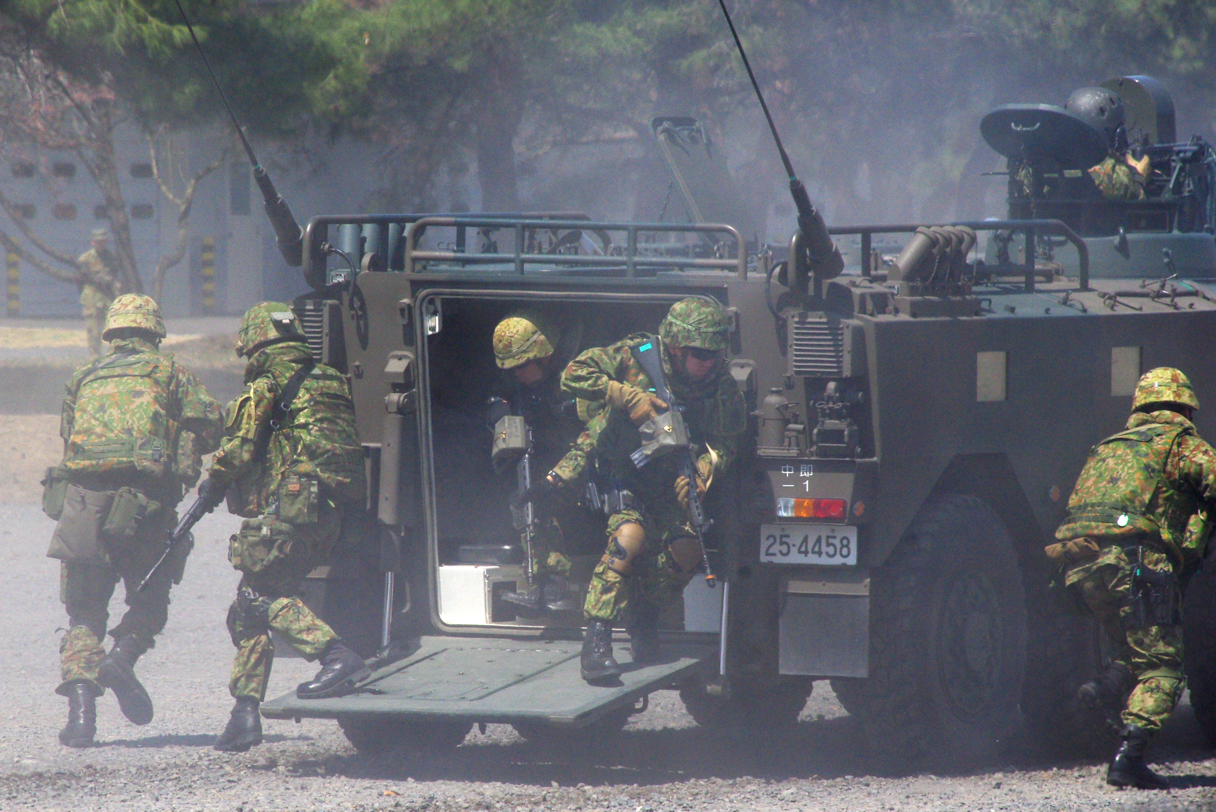 JGSDF Type96 Armored Personnel Carrier,Central Readiness Regiment.Taken by Los688,in Camp Utsunomiya,Japan,at 08-Apr-2012.PD-self ja:96式装輪装甲車（B型） 中央即応連隊 2012年04月08日、宇都宮駐屯地で撮影。